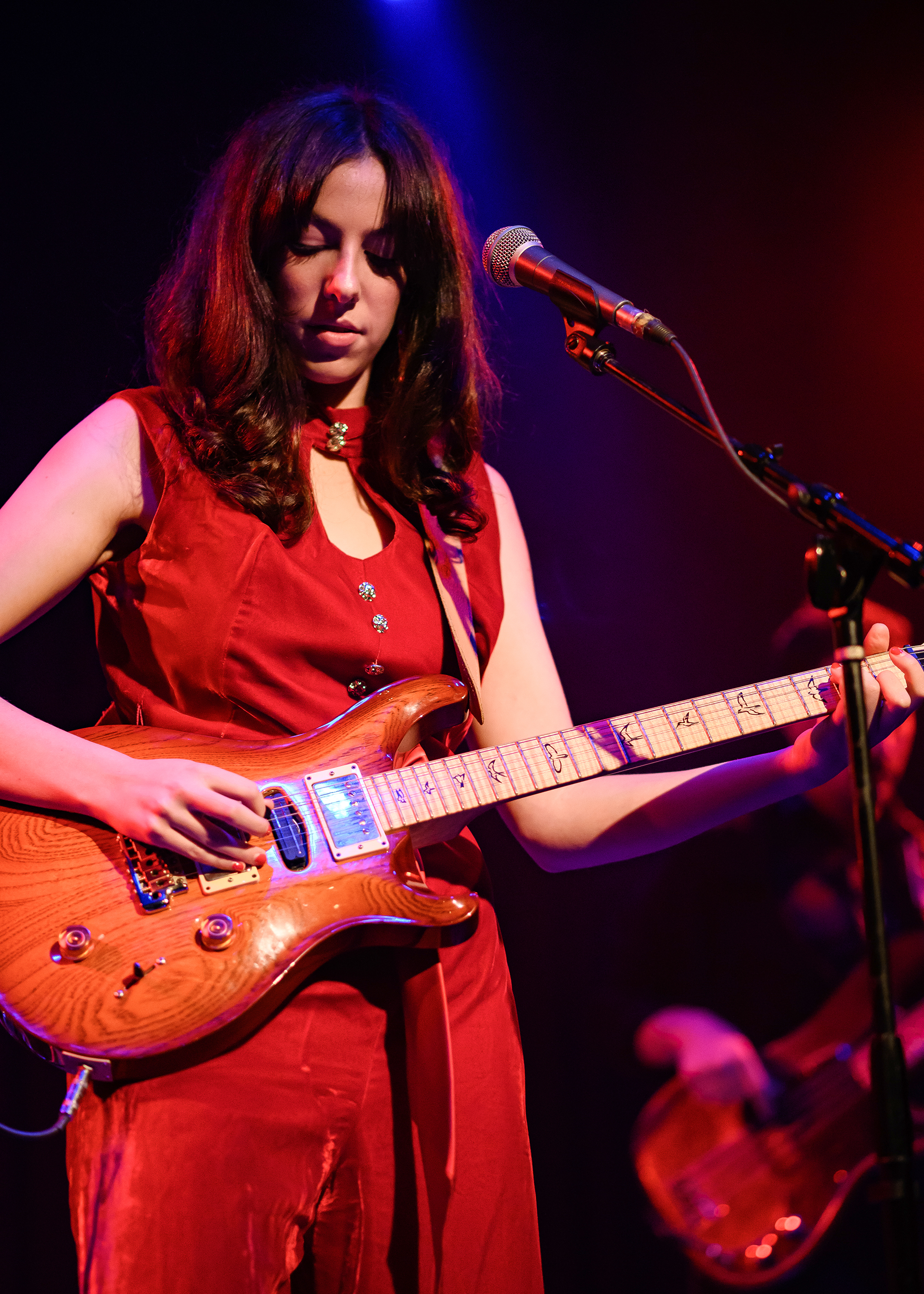 Rodes Rollins performing live at the Bootleg Theater in Echo Park, Los Angeles, California, on Thursday, December 20, 2018.